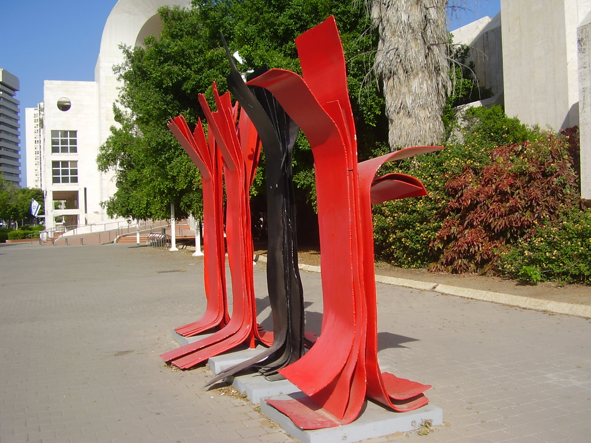 "Parchments" by Dina Recanati, Tel Aviv